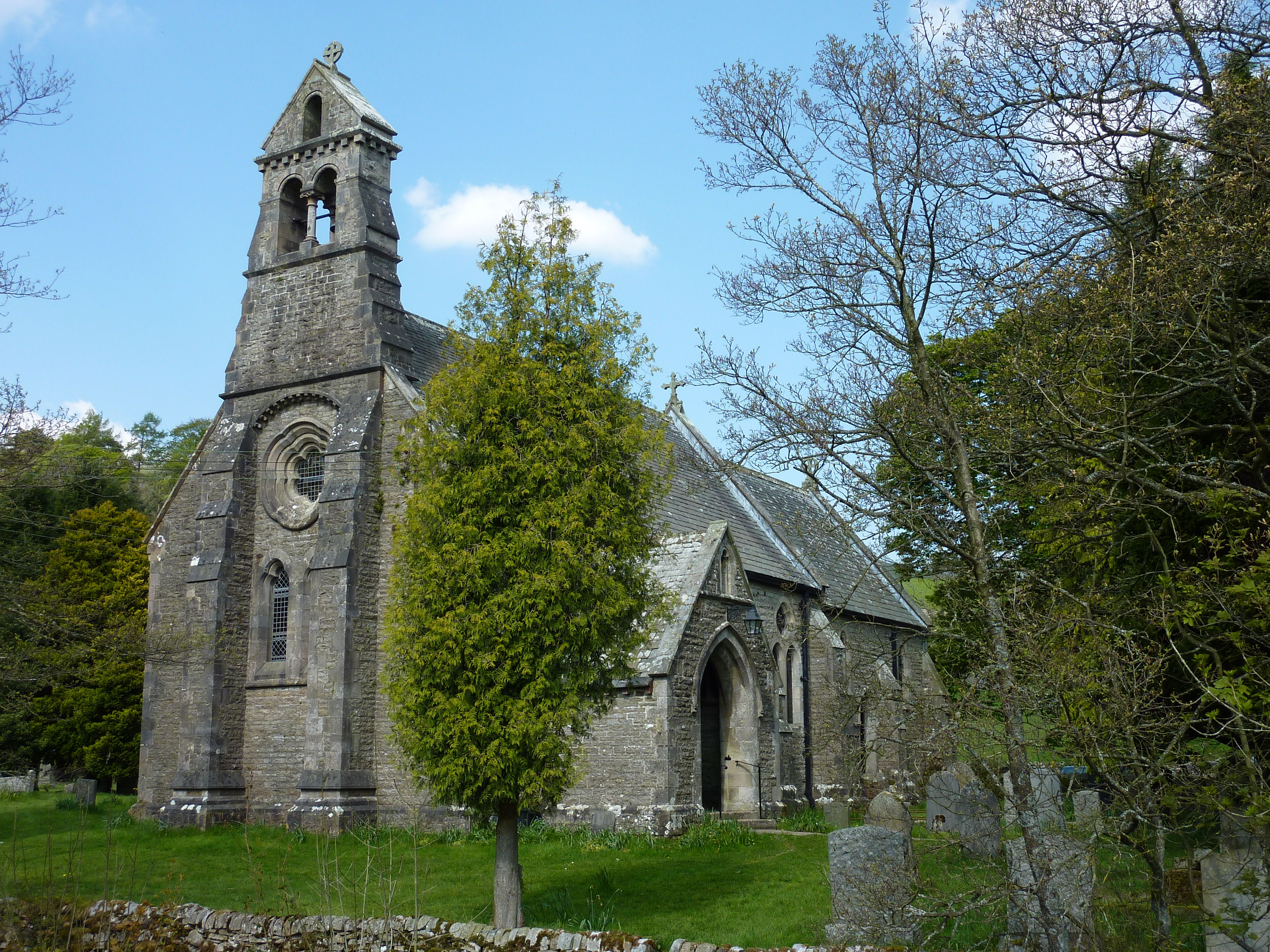 The church of St Mary & St John in the village of Hardraw in the Yorkshire Dales.